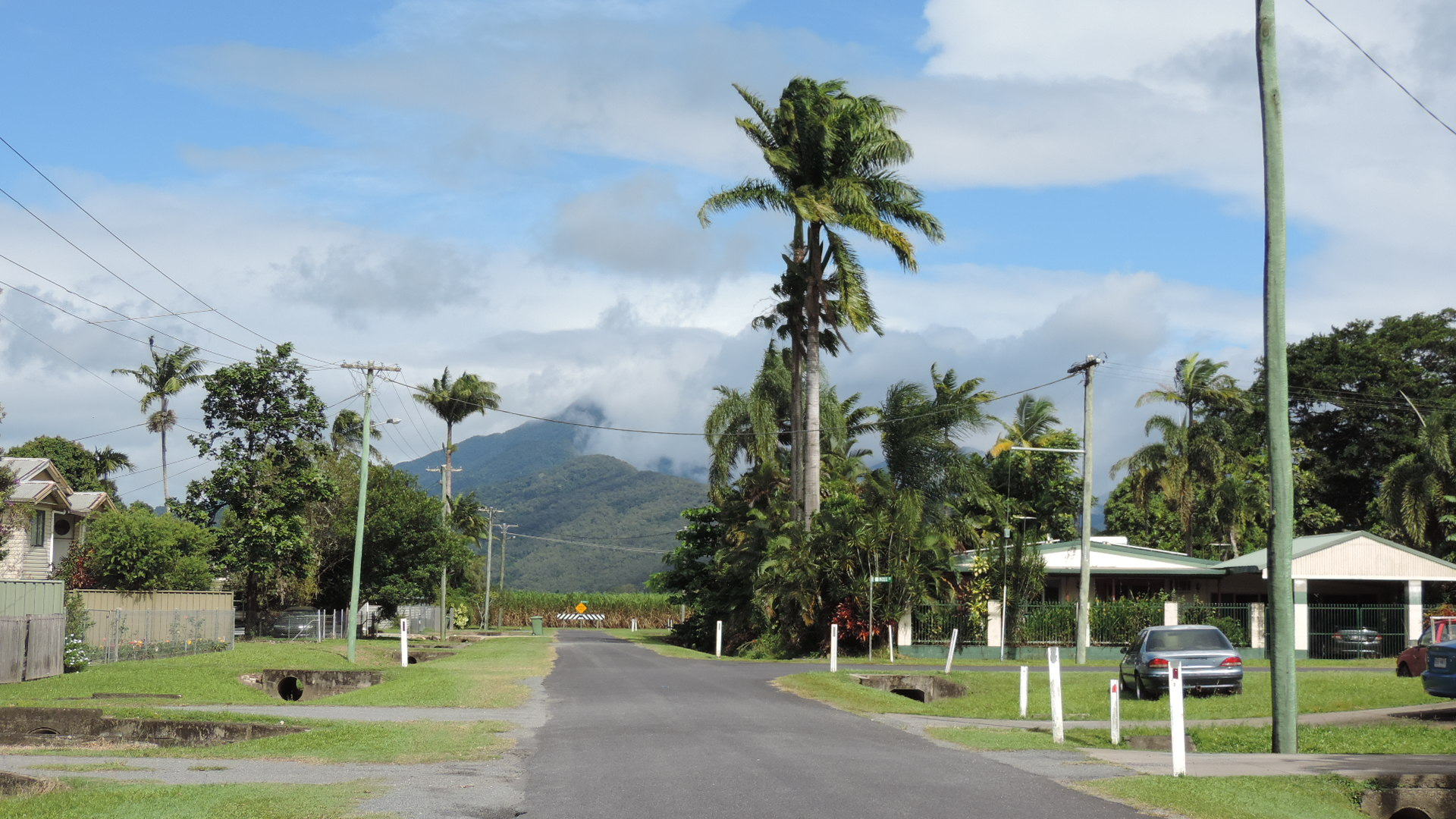 Streetscape, Alloomba, 2018